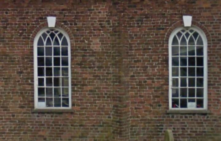 Church Windows at St Mary's Church, Tarleton